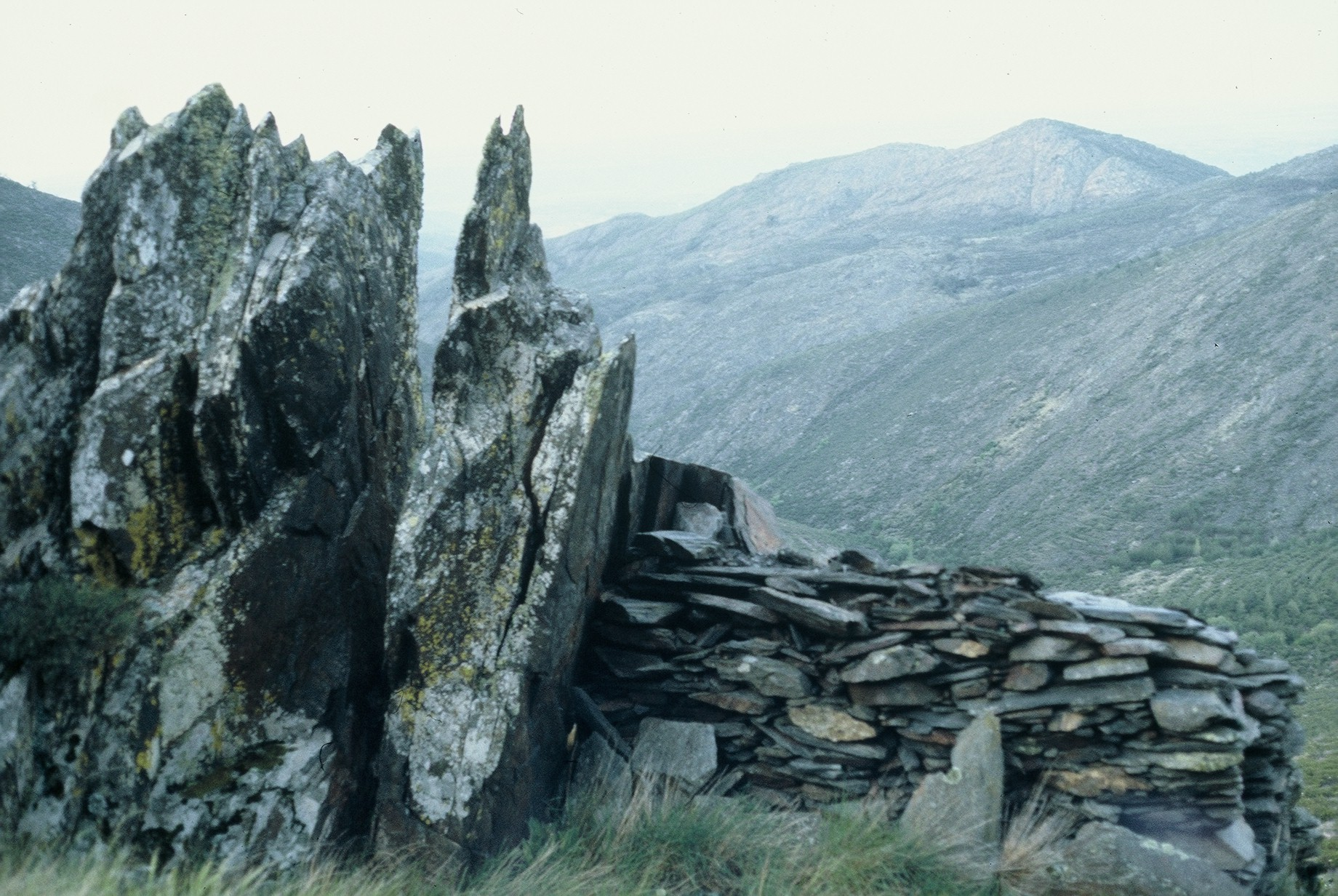 Refuge of slate (black architecture) in the Ayllón Sierra (Guadalajara, Spain).